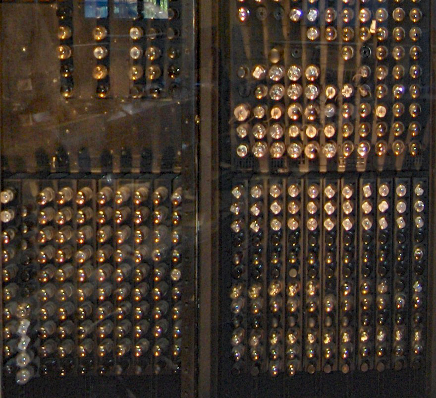 Detail of the back of a panel of ENIAC, showing vacuum tubes. This was taken from the computer lab, which has a glass window to the back of the piece of ENIAC on display at the Moore School of Engineering and Applied Science. The image was perspective-corrected and cropped by myself. Original photo courtesy of Paul W Shaffer, released under GNU license along with 3 other images in an email to me. Copyright 2005 Paul W Shaffer, University of Pennsylvania.